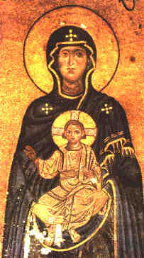 Theotokos, a mosaic mural from the Gelati Monastery, Georgia, ca 1125-1130